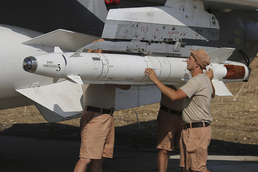 Fixing Kh-25 missiles to Russian jet at Latakia